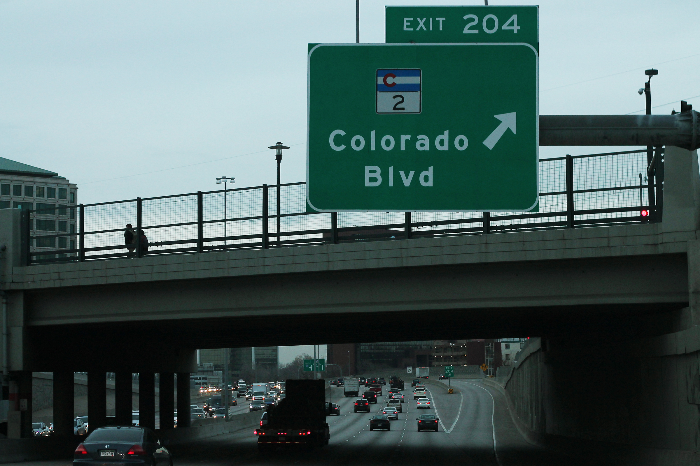 Int25nRoad-Exit204-CO2